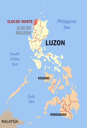 Map of the Philippines showing the location of Ilocos Norte